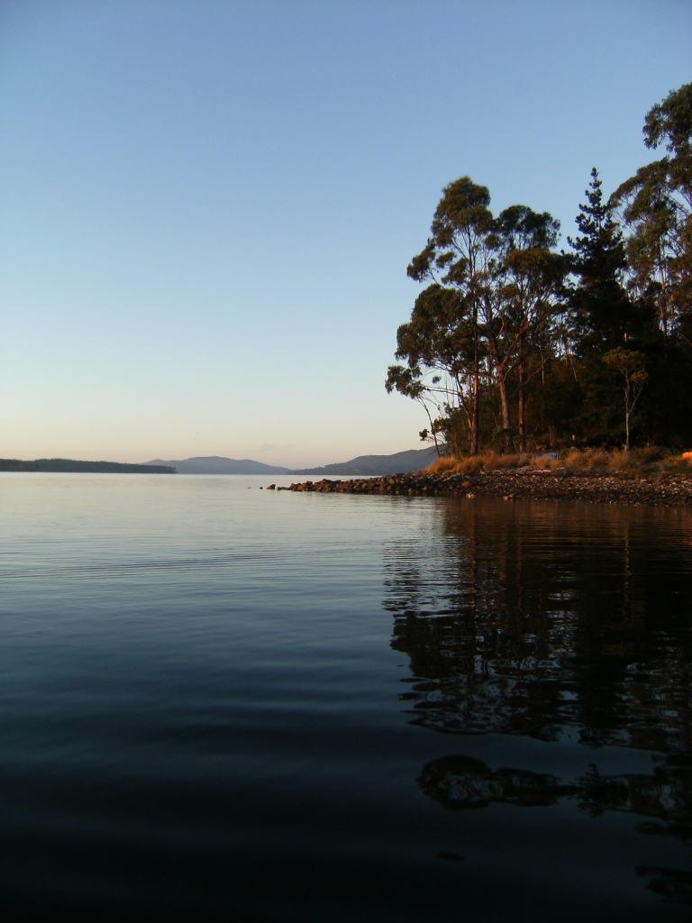 D'Entrecasteaux Channel From Kettering. Early Morning Kettering.